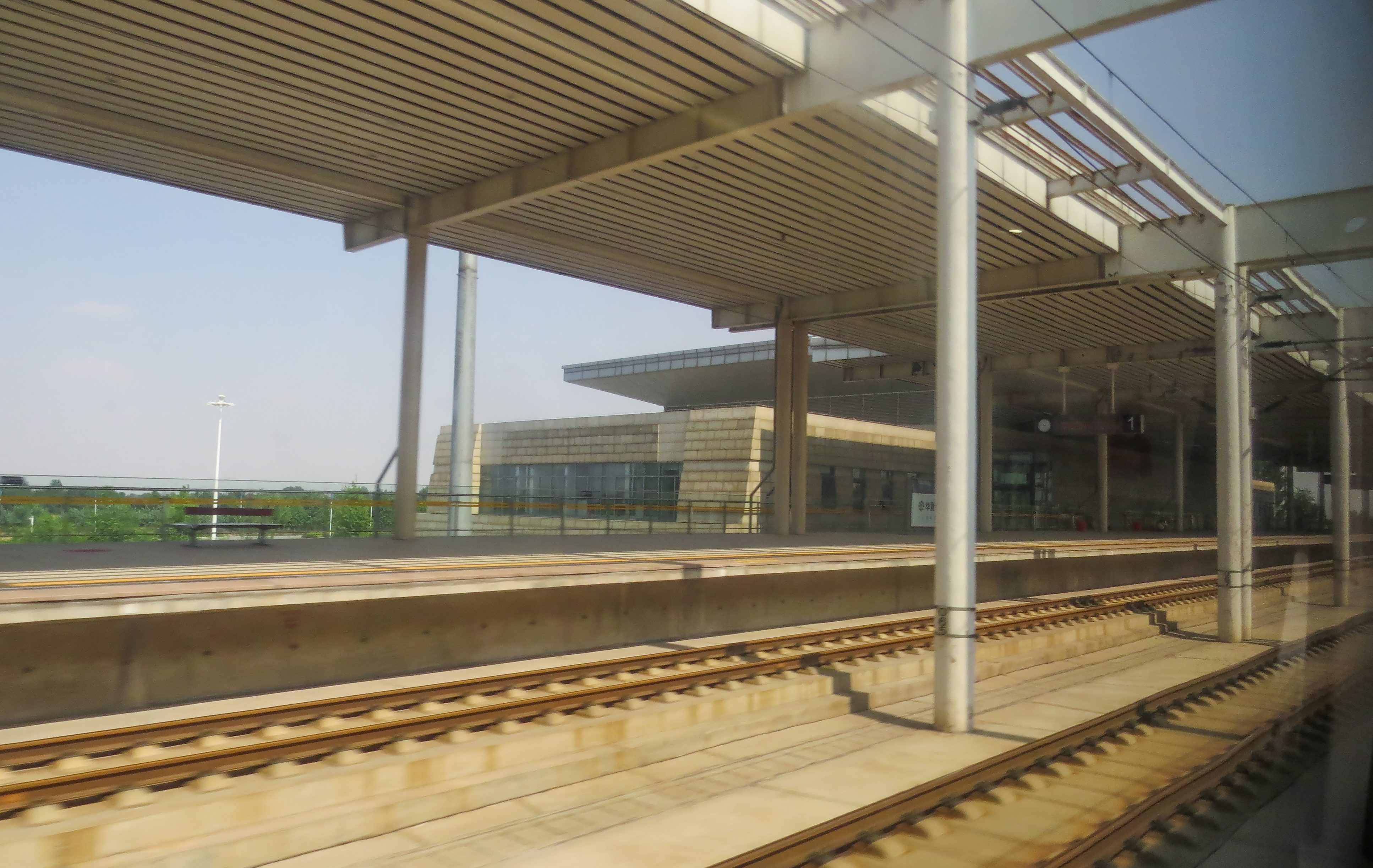 Taken as G662 was passing.